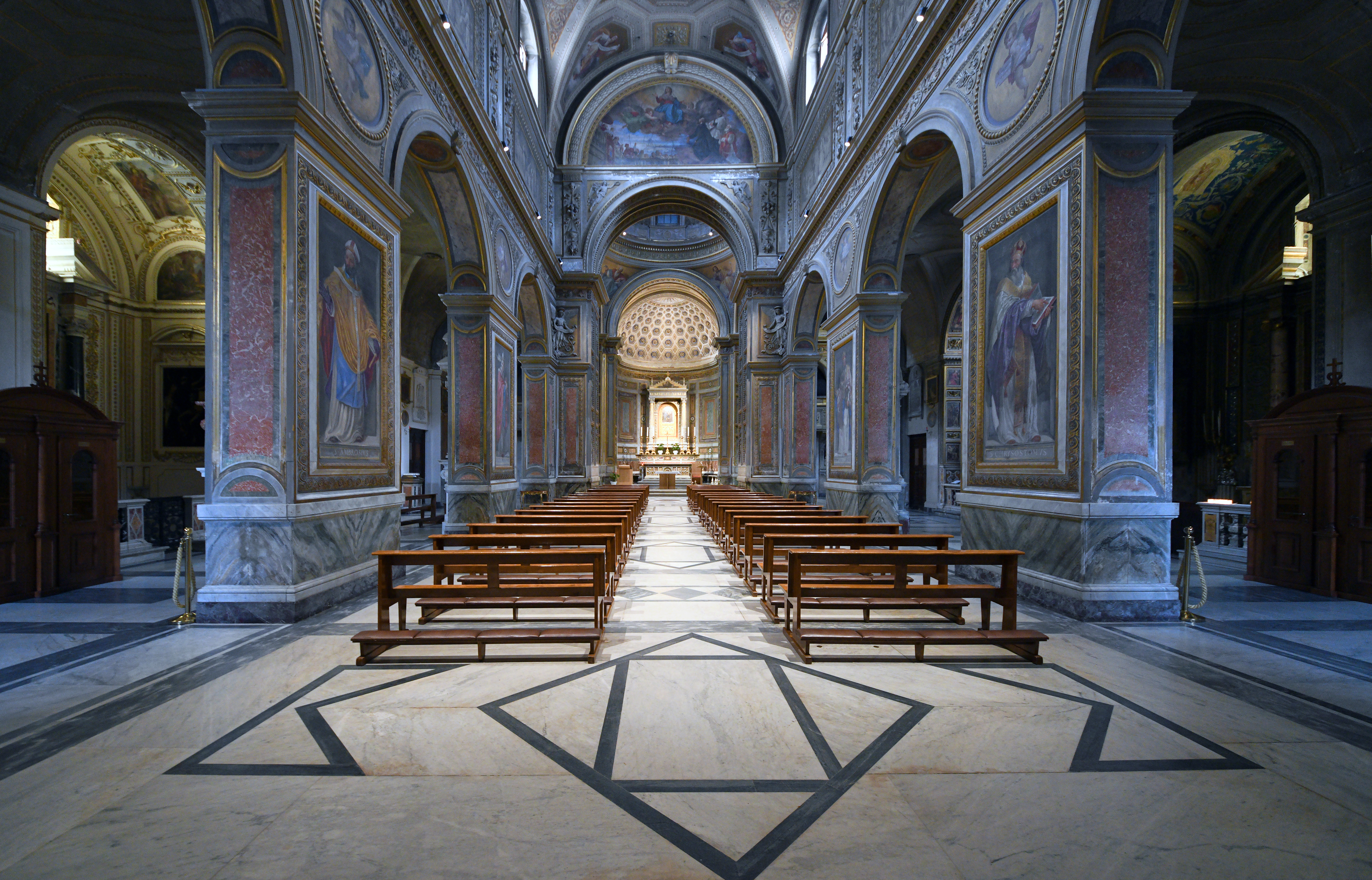 Interior of Santa Maria in Aquiro (Rome)